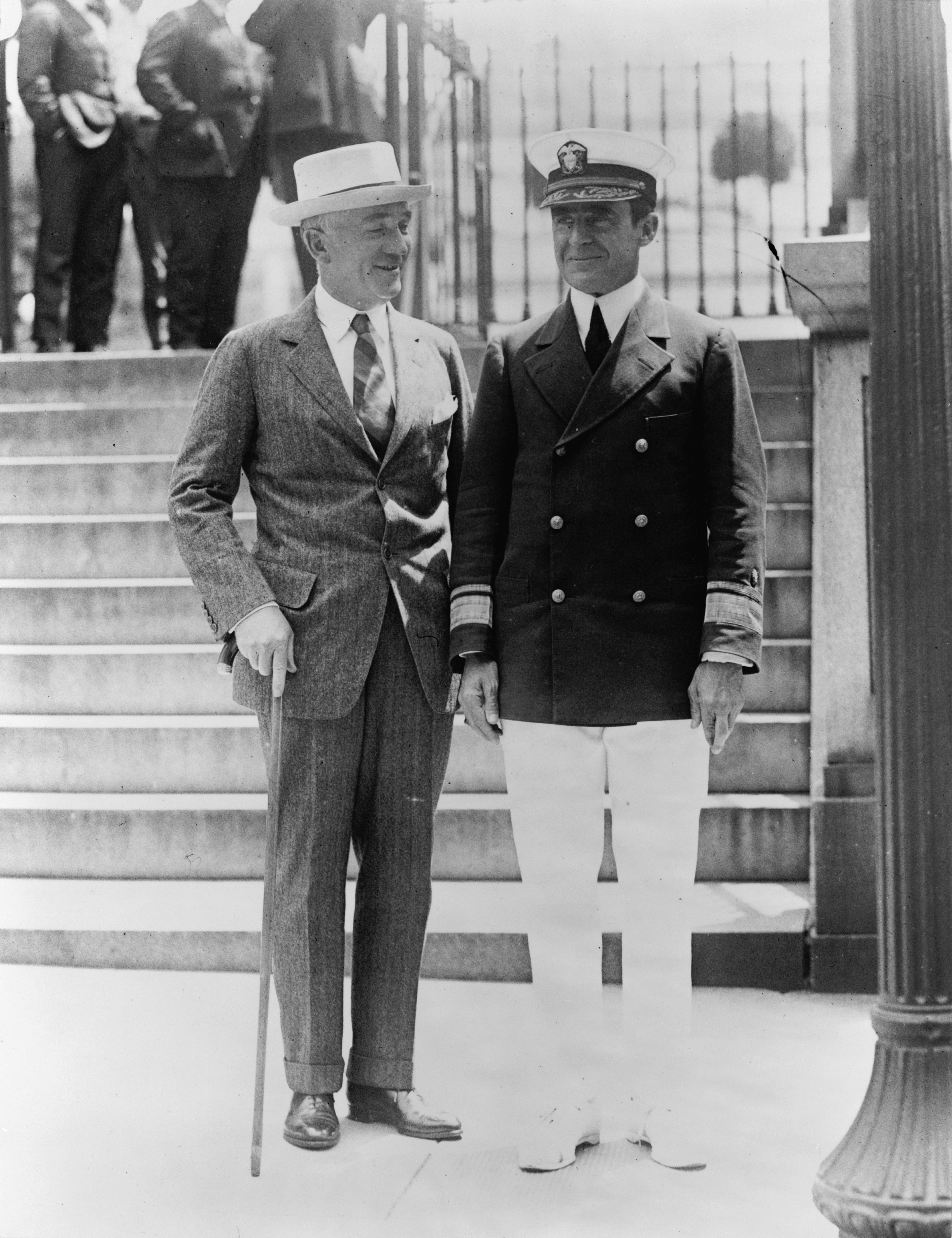 Norman H. Davis and Dr. Gary [i.e. Cary] Grayson photographed at the White House today, Mr. Davis having confered [sic] with the President relative to the calling of the first meeting of the assembly of the League of Nations ...